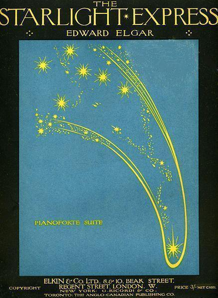 The outside cover of the Pianoforte Suite "The Starlight Express" by Edward Elgar, published 1916 by Elkin & Co. Ltd., London.